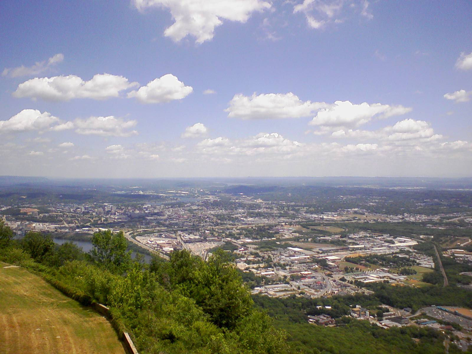 Chattanooga, Tennessee, view from the observer deck of the Lookout Mountain Incline Railway, near the northeastern tip of the Lookout Mountain plateau.